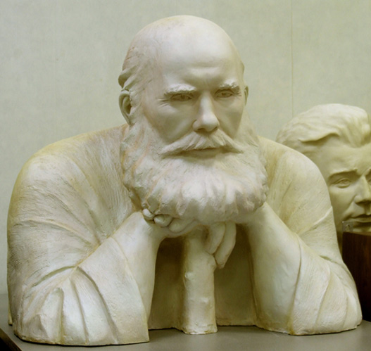 Iliya Muromets, Forensic facial reconstruction by S.A.Nikitin.